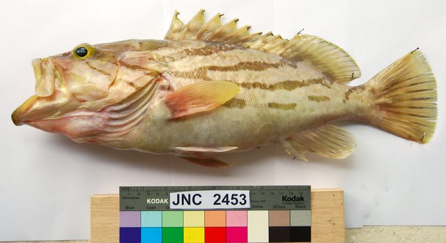 Epinephelus morrhua (Serranidae, Epinephelinae). Locality: External slope of Récif Kué, off Nouméa, New Caledonia. Fork Length 460 mm, Weight 1,300 grams. Date: 2008-01-23. This photograph is also in FishBase.